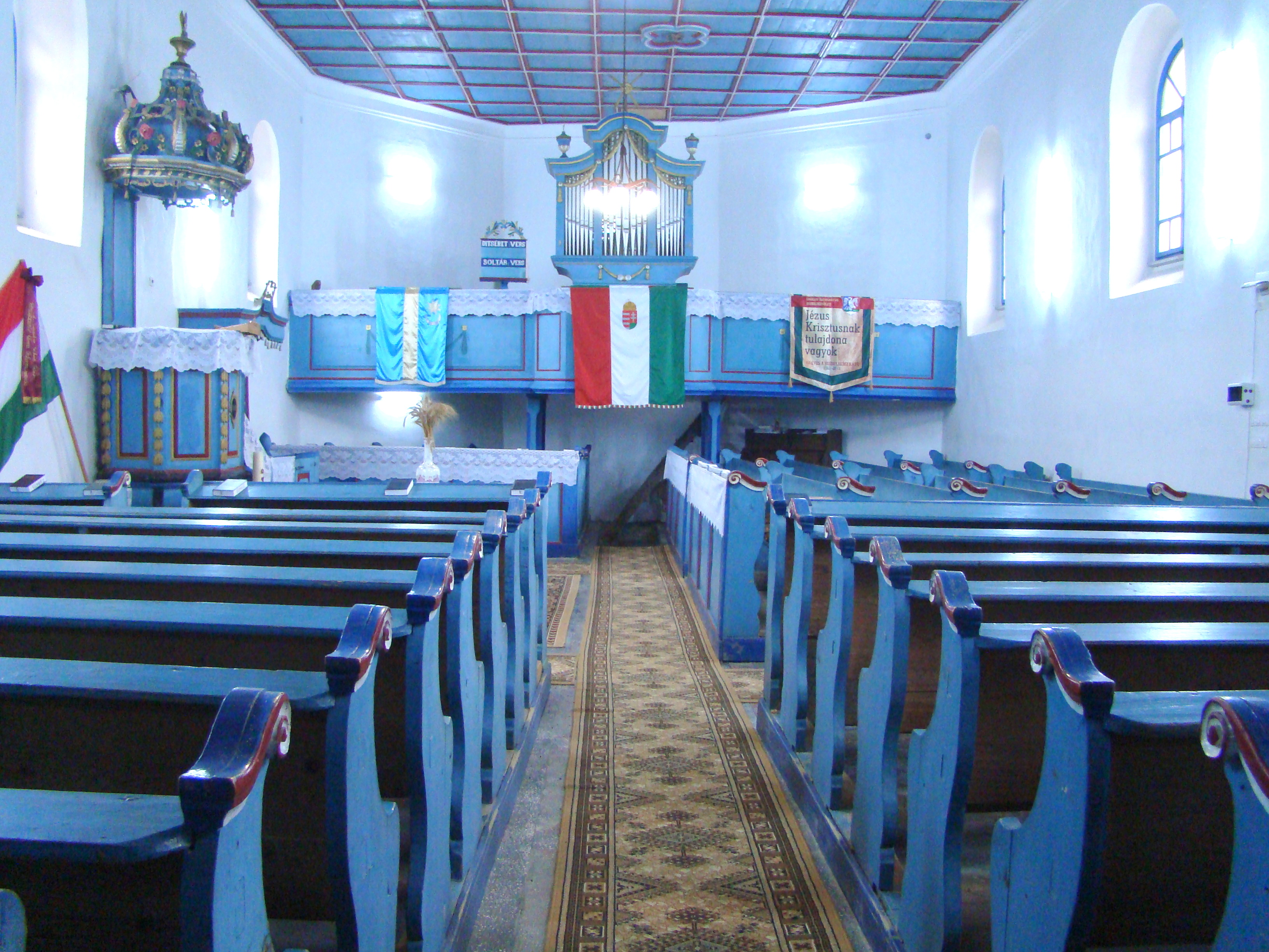 Reformed church in Solocma, Mureș County, Romania